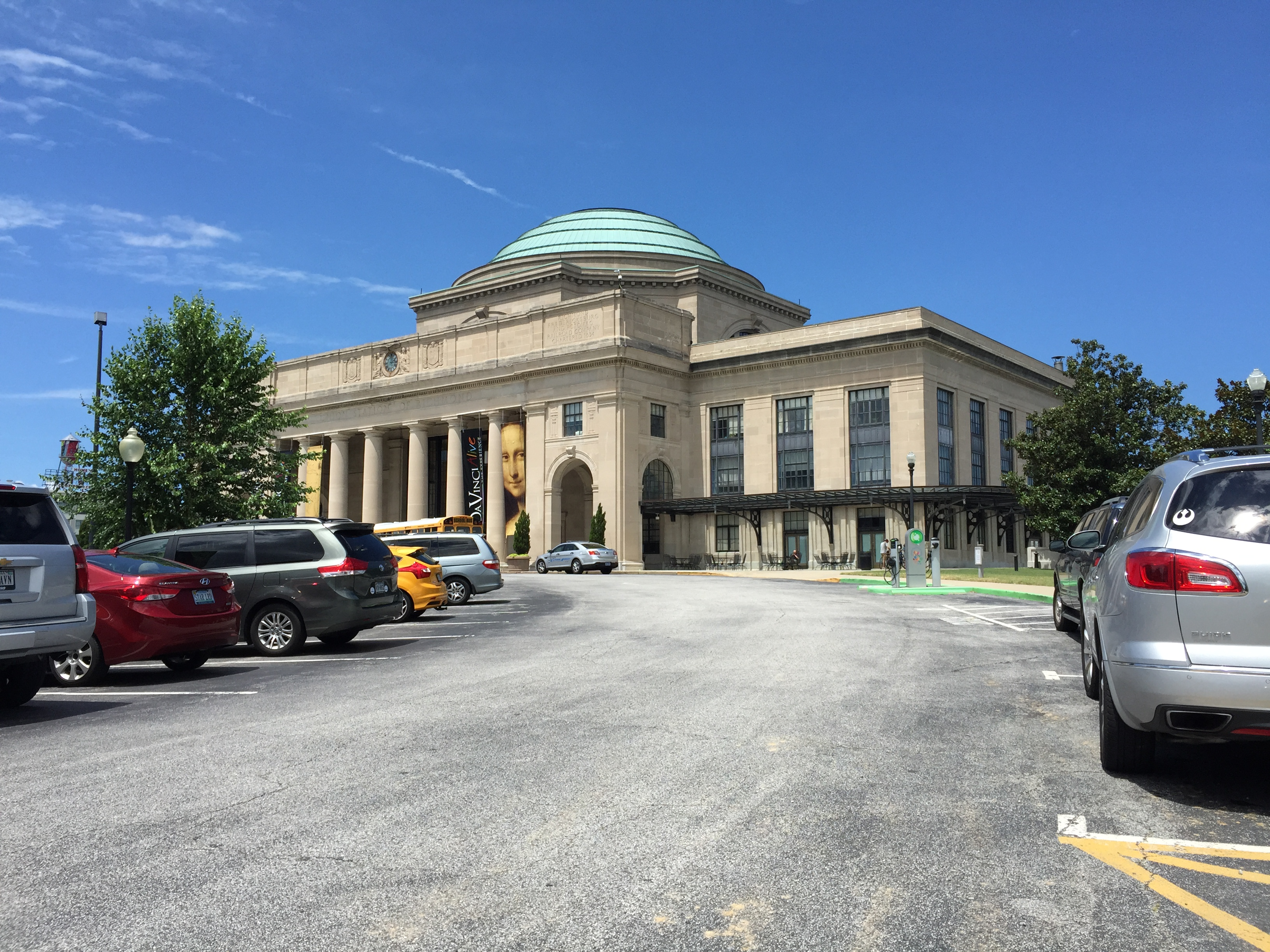 View west along Virginia State Route 399 at U.S. Route 33 and U.S. Route 250 (Broad Street) at the Science Museum of Virginia in Richmond, Virginia